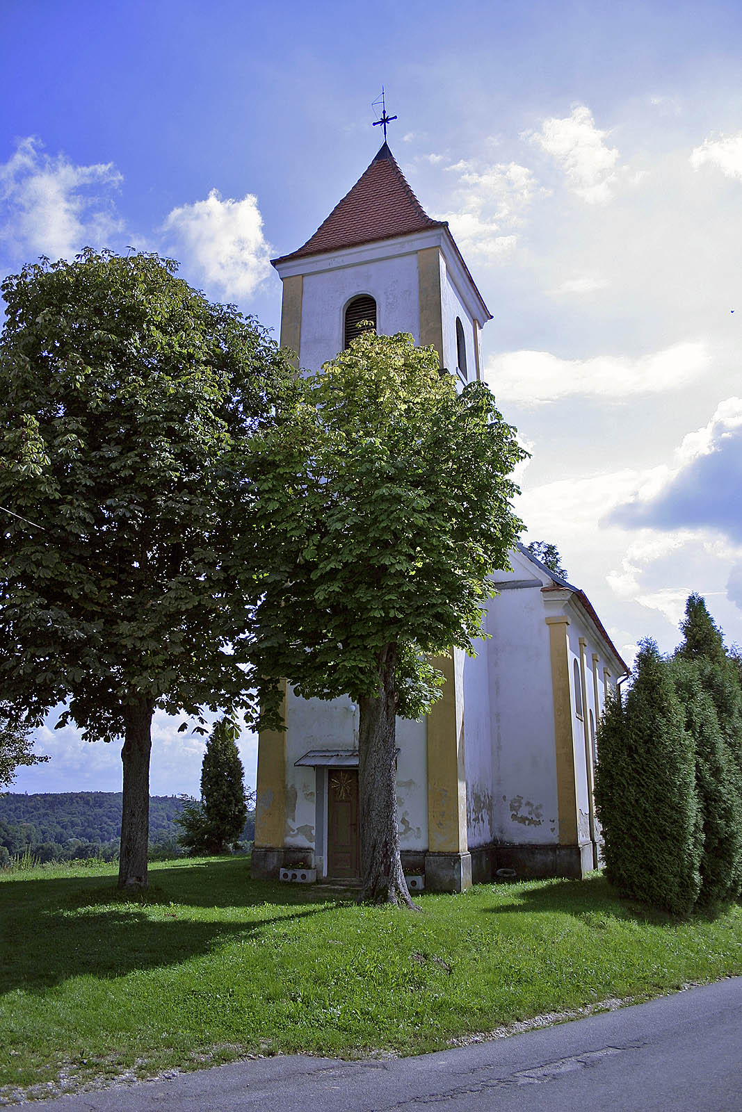 Our Lady of the Snow Church, Fikšinci